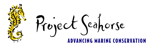 This is the Project Seahorse Logo